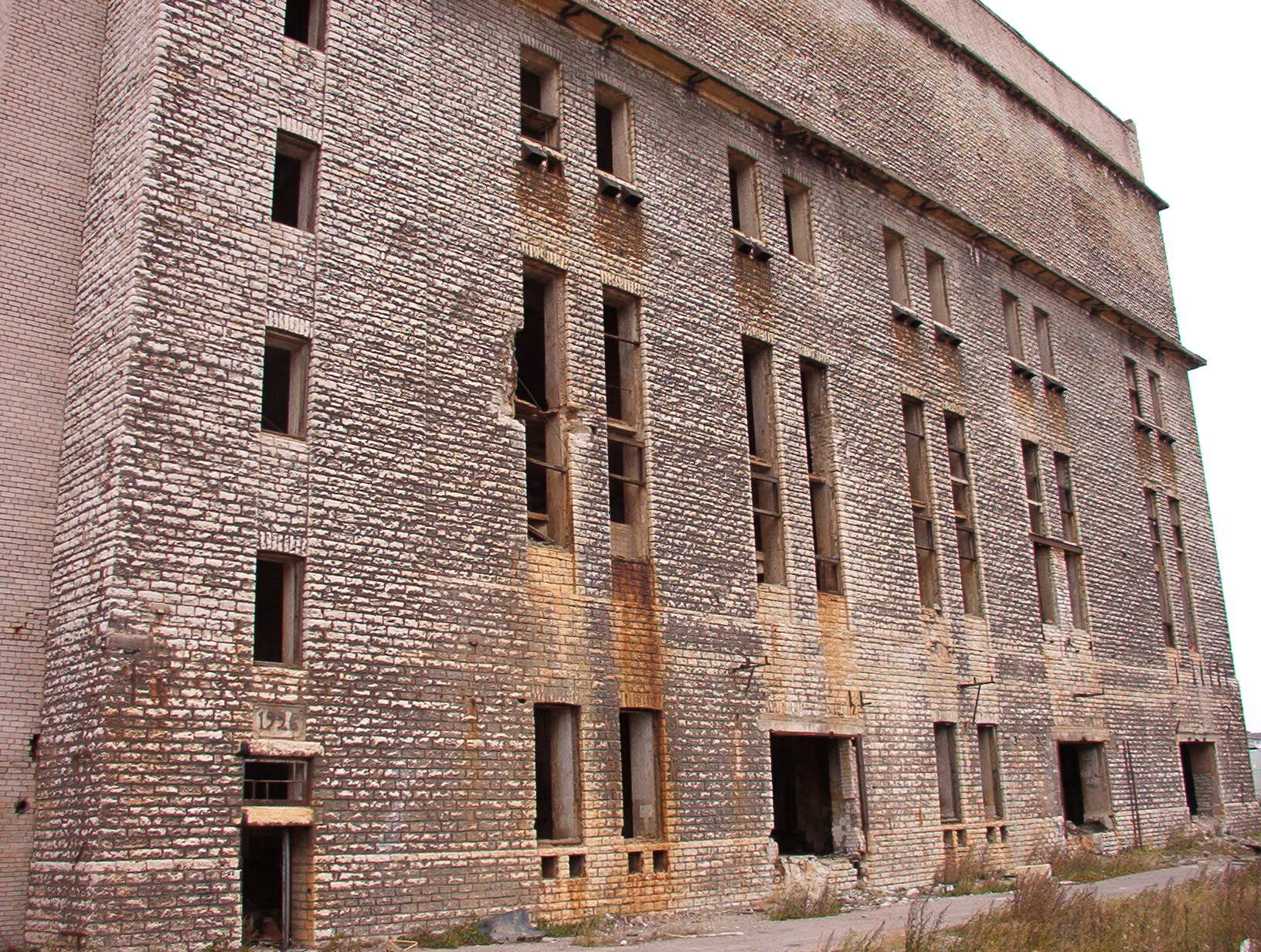 Tallinn cellulose factory